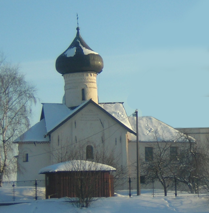 Saint Simeon churche of Zverin monastery in Veliky Novgorod